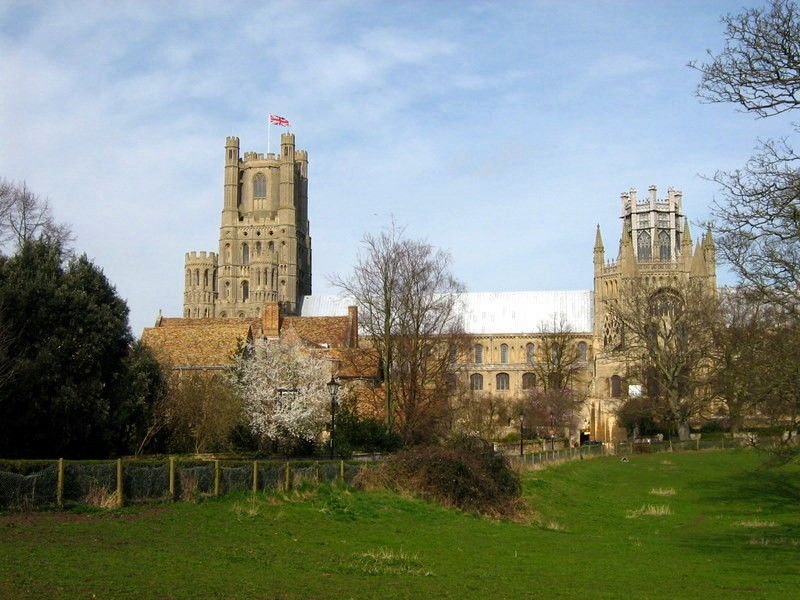 Ely Cathedral viewed from the park. Taken by gwendraith 12th March 2007